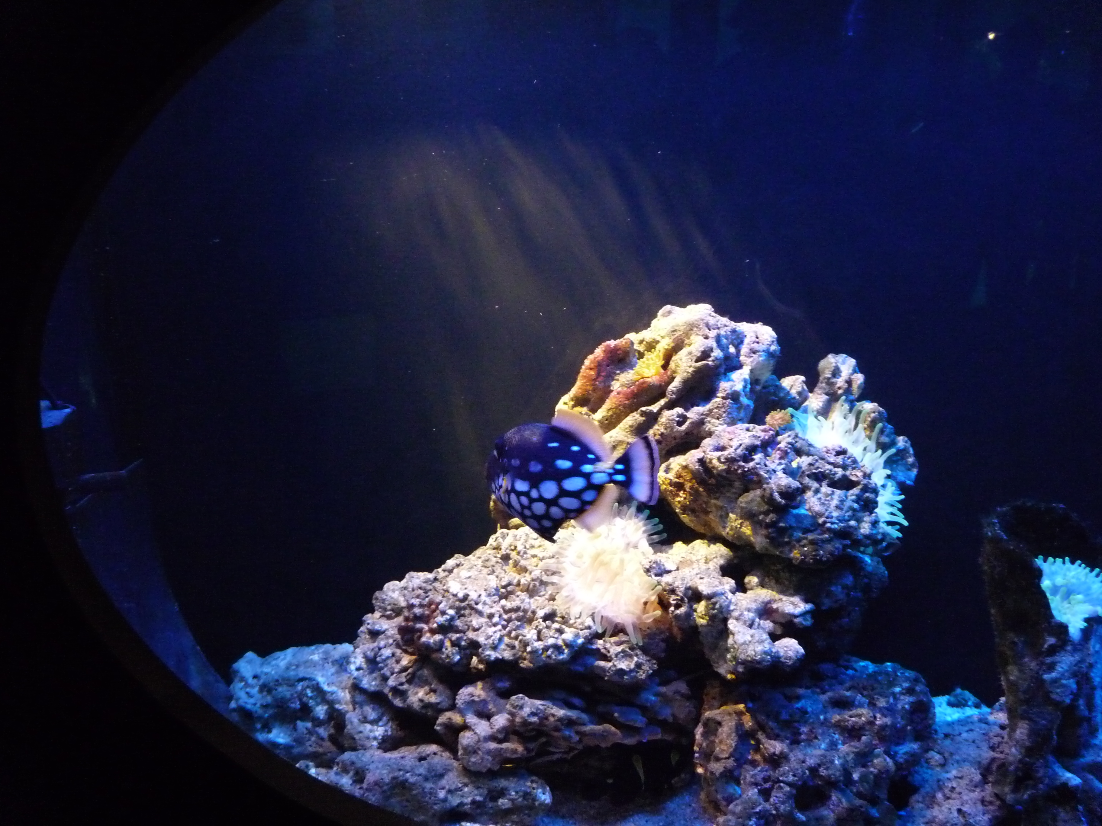 Aquaria